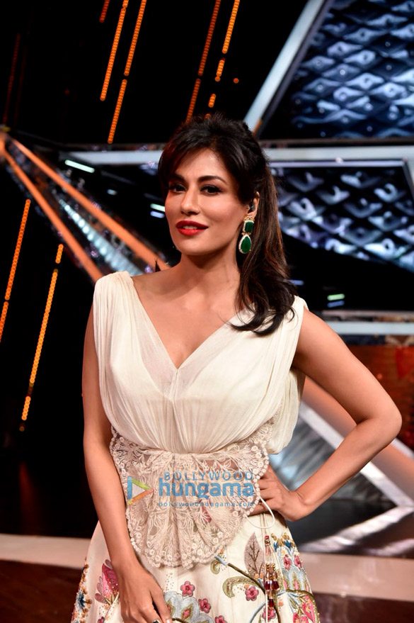 Chitrangada Singh on the sets of DID Lil’ Masters